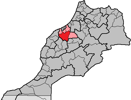 Location of the province Settat in the region Chaouia-Ouardigha, Morocco.